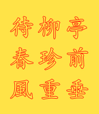 A note writed with nine Chinese characters,which Chinese People used to mark weather in winter.